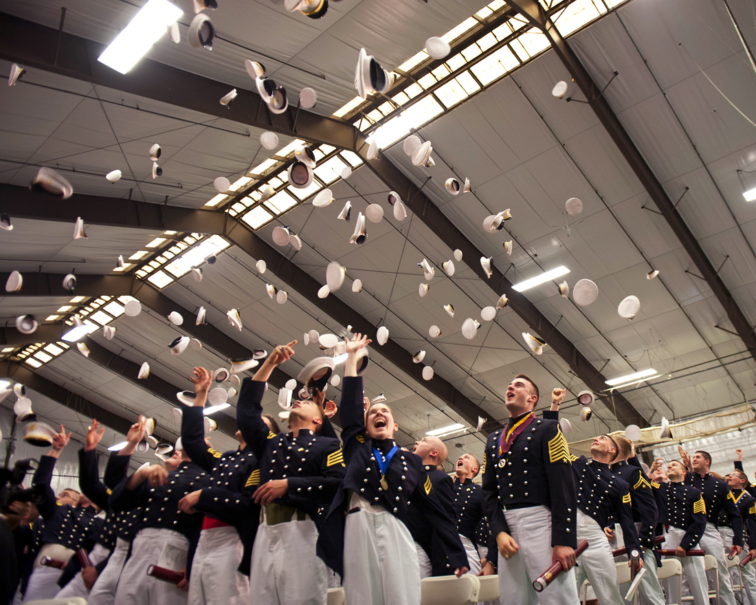 Norwich University graduates toss their hats into the air after official ceremonies at the university in Northfield, Vt., May 13, 2012.